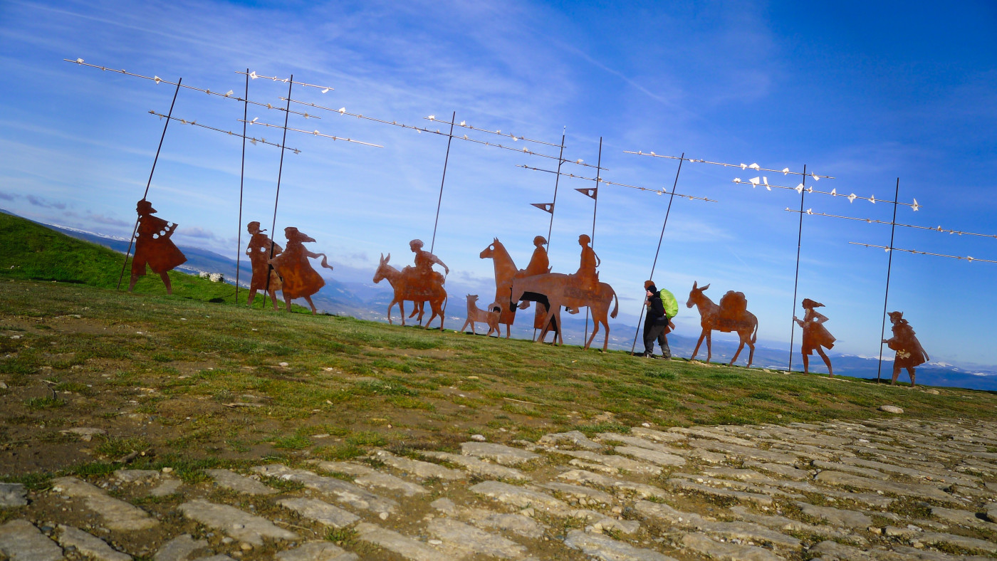 Alto del Perdón (or Sierra del Perdón) on Saint James way